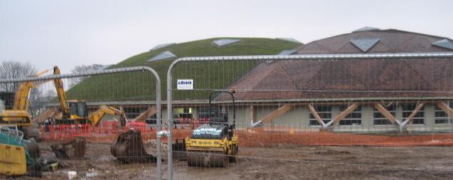 Shows The Pods during its construction.